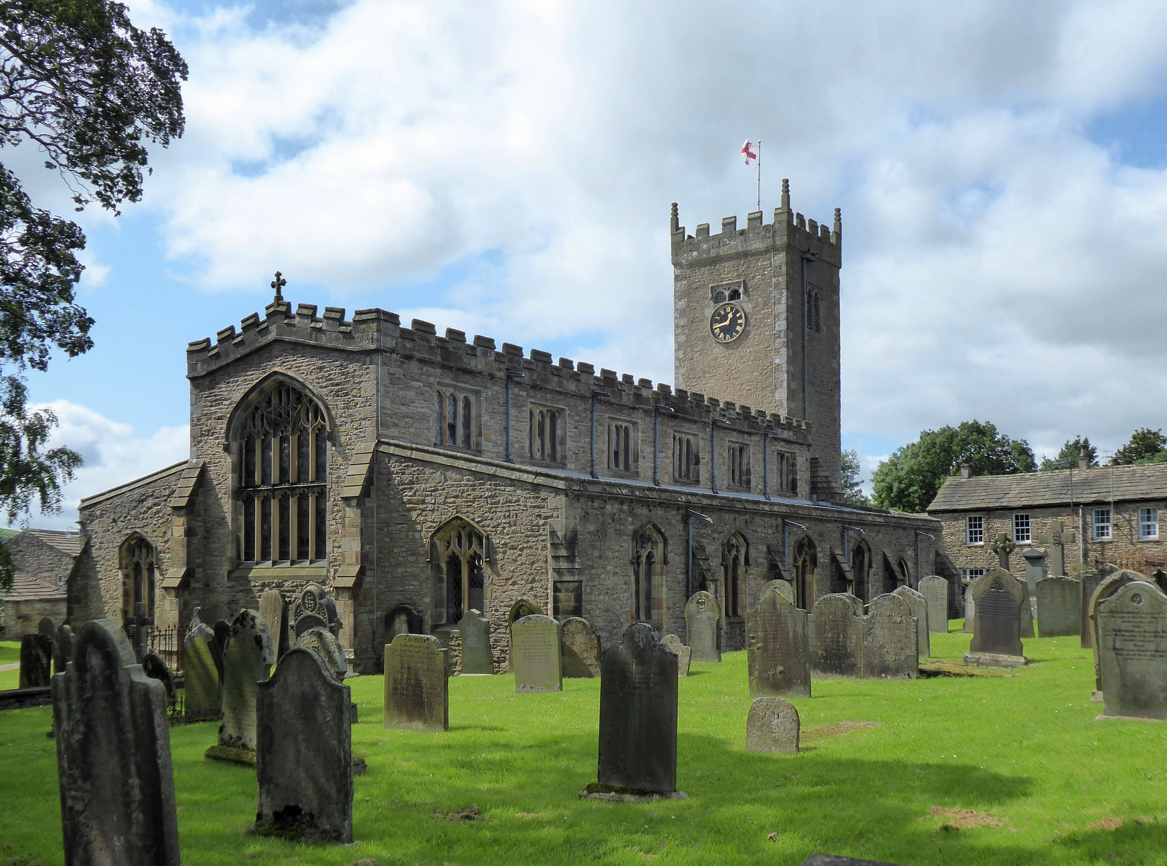 St Oswald's church, Askrigg